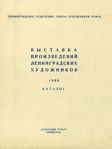 Cover of the catalog of Exhibition of works by Leningrad artists of 1960